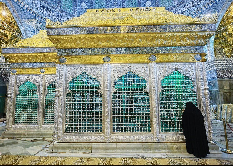 Al-Askari Shrine in Samarra